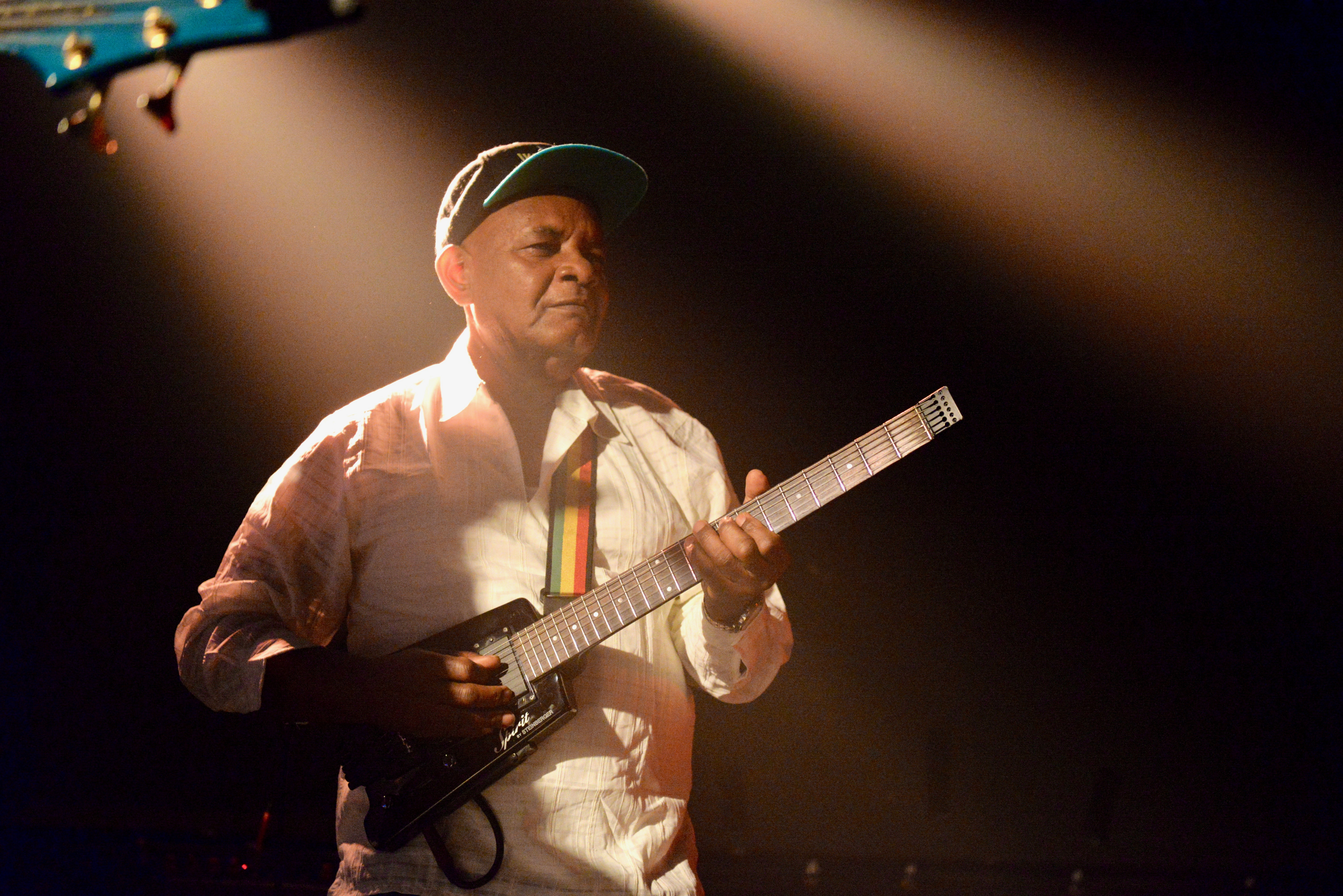 Dwight Pinkney in concert in Antwerp June 16 2018